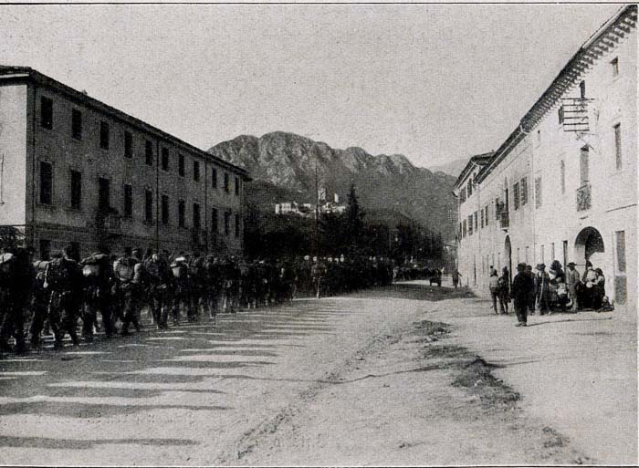 German troops in italian town of Vittorio during the Battle of Caporetto